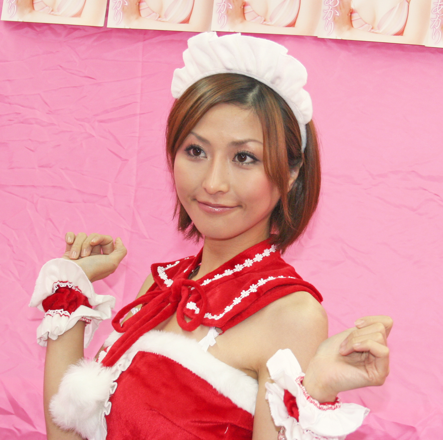 AV actress Akari Asahina at an autograph-signing event in Kobe, Hyogo, Japan.